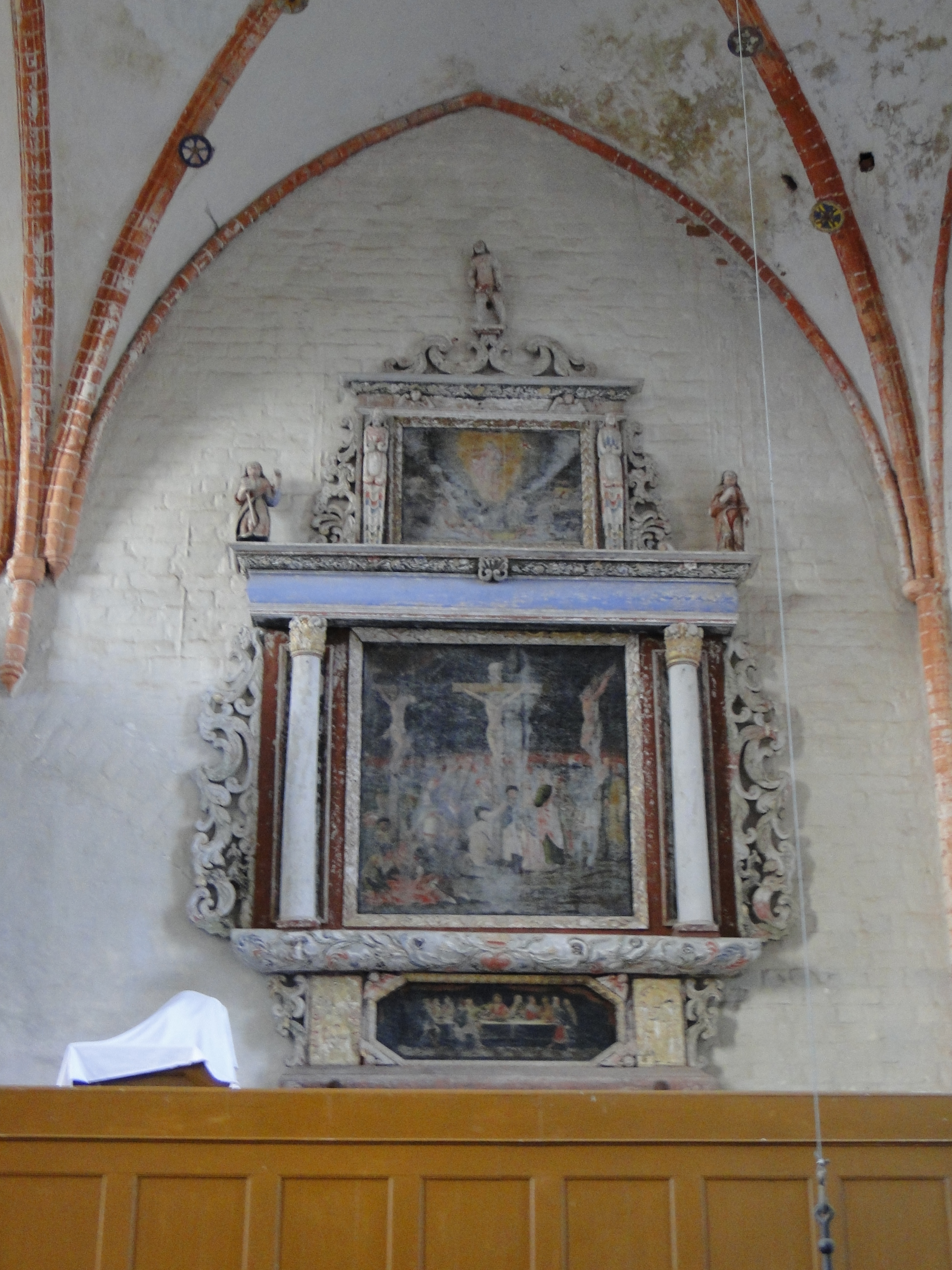 Church in Mestlin, district Ludwigslust-Parchim, Mecklenburg-Vorpommern, Germany Old, baroque Altar retable on the Pipe organ's matroneum, 17th century